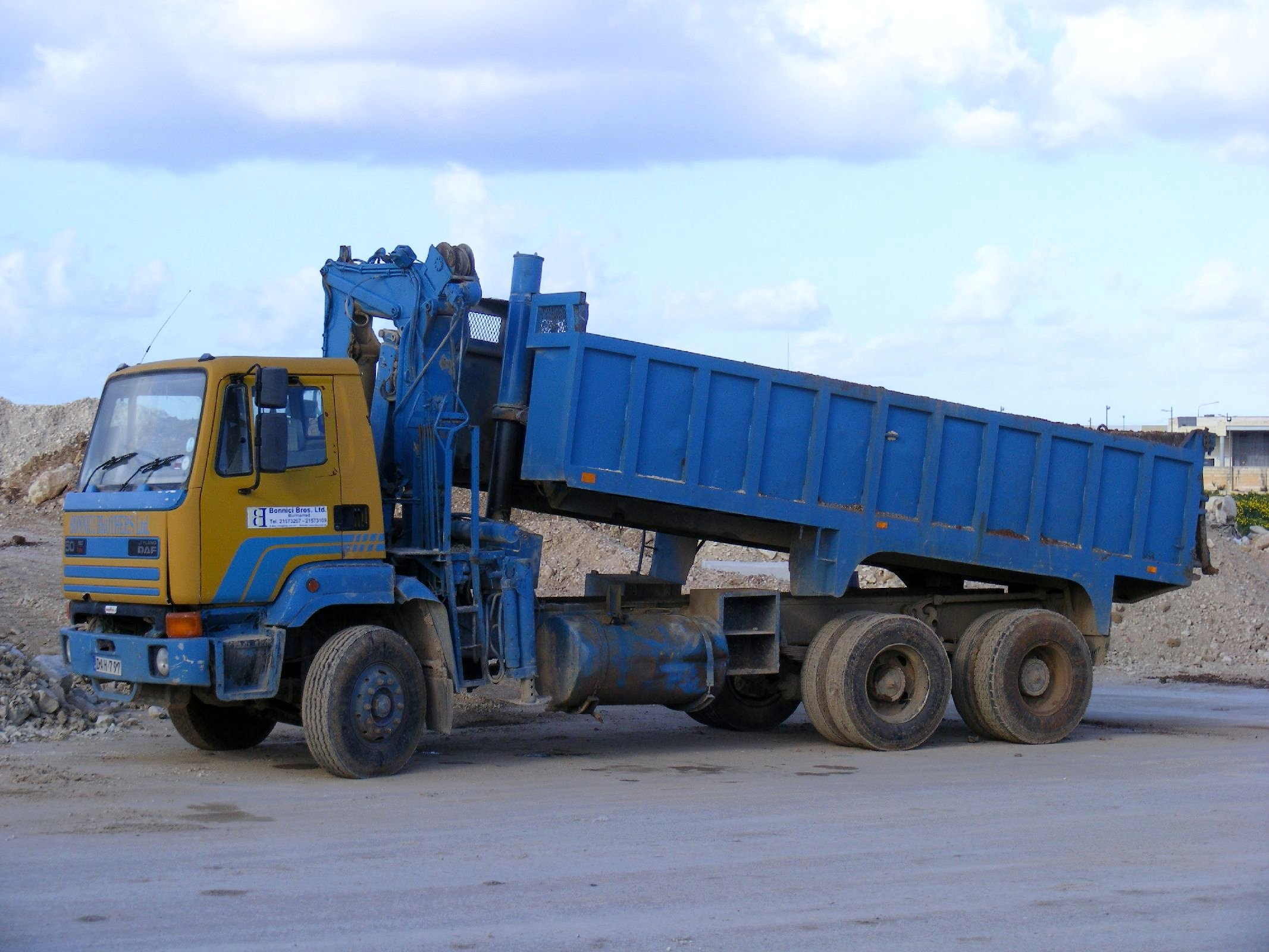 Bonnici Leyland Daf 6x4 tipper with hoist. Feb 2011